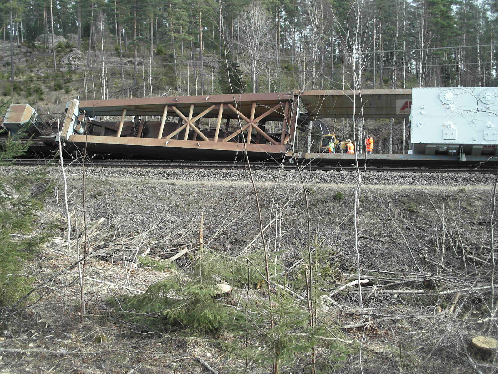 Transformer car